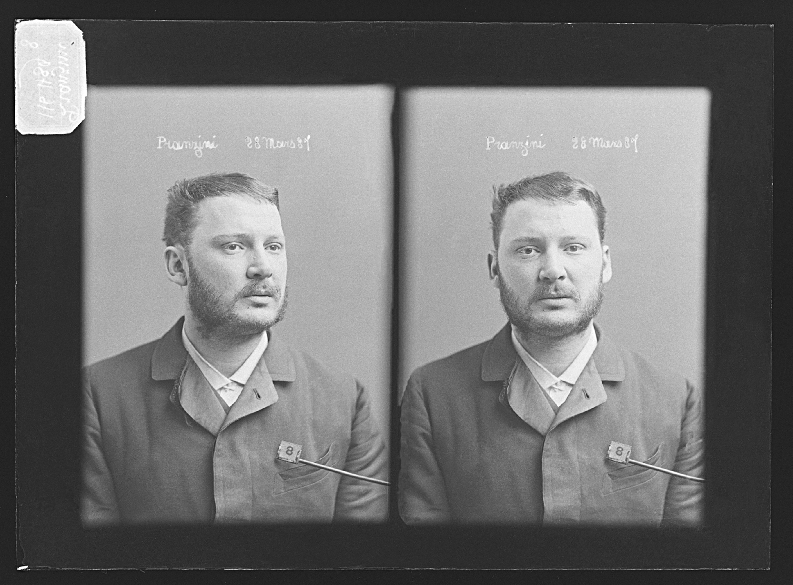 Henri Pranzini (Alexandria, Egypt, 1857 - Paris, august 31, 1887), famous french murderer, executed for a triple assassination.